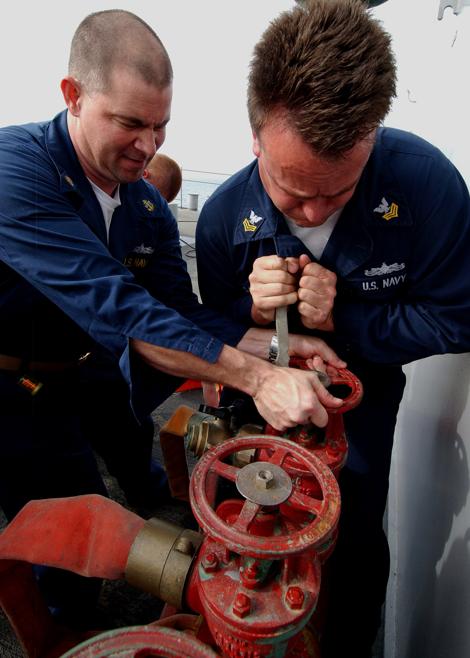 Horn of Africa (May 3, 2005) - Chief Gas Turbine System Technician Jeff Morrison Fire Controlman 1st Class Ron Sanders, assigned to the Ticonderoga-class guided missile cruiser USS Normandy (CG 60), break free a seized fire main valve during a timed damage control training scenario. Normandy is currently conducting Maritime Security Operations (MSO), which set the conditions for security and stability in the maritime environment. Normandy is currently conducting operations in the 5th Fleet area of responsibility. U.S. Navy photo by Photographer's Mate 1st Class Robert R. McRill (RELEASED)